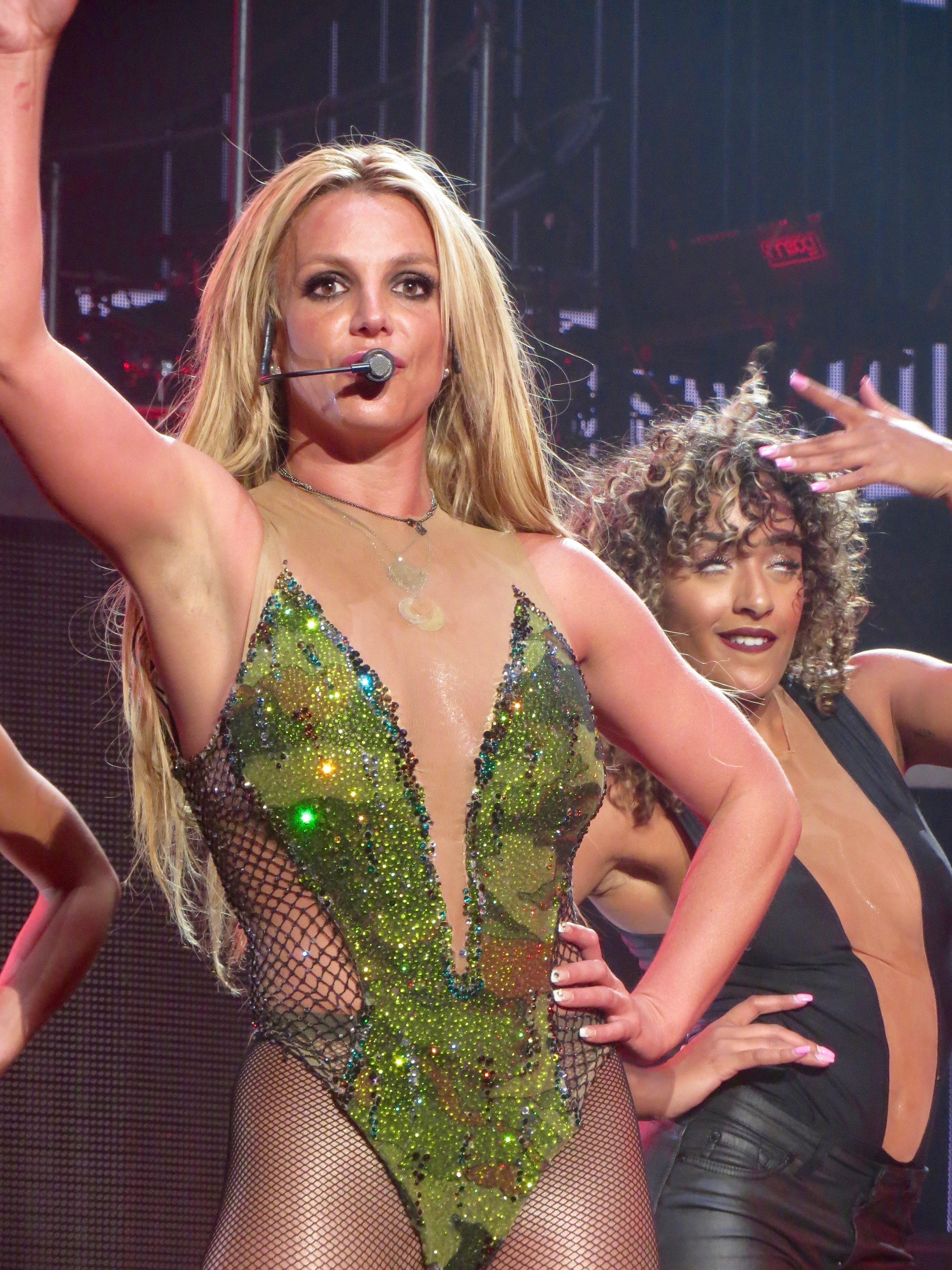 Britney Spears during her 'Piece of Me' show